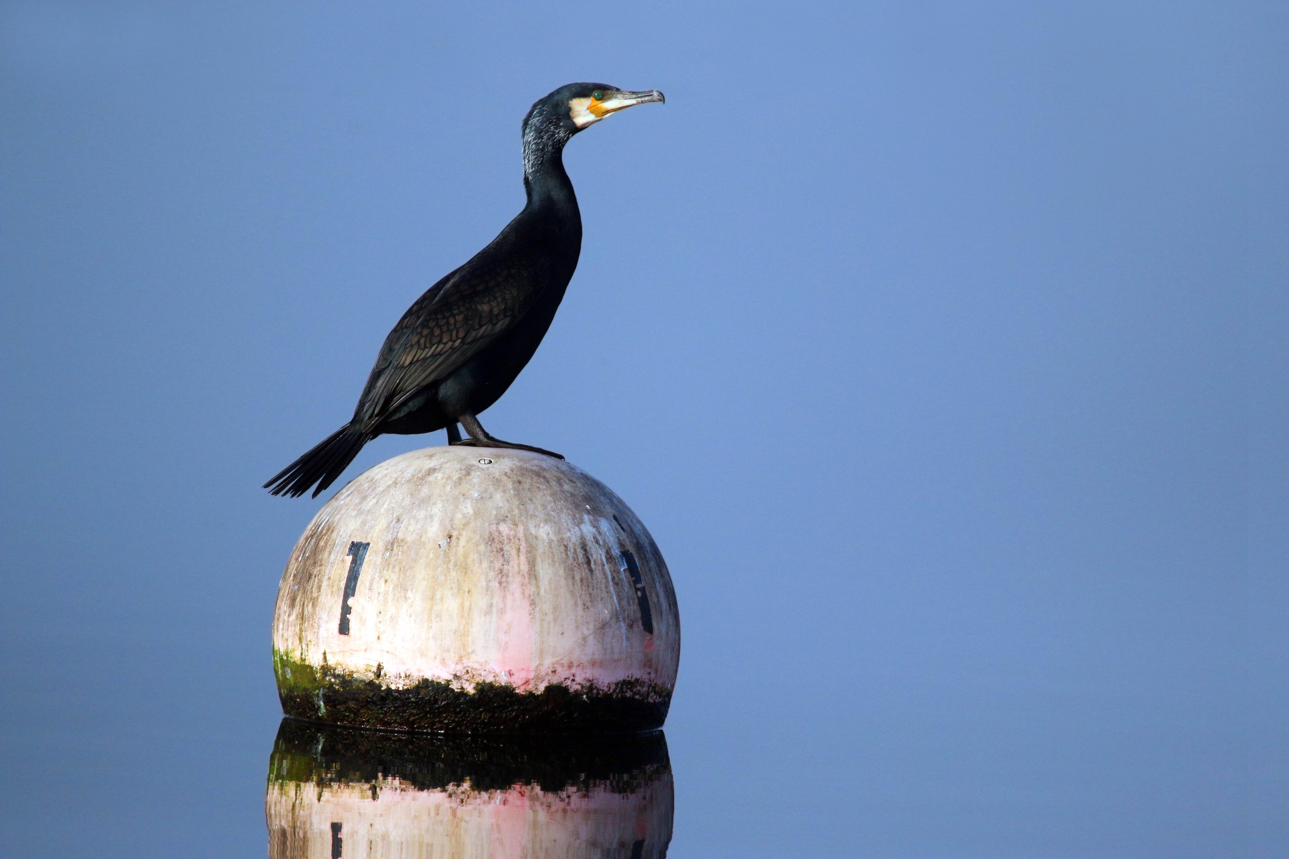 Great cormorant (Phalacrocorax carbo), Farmoor Reservoir, Oxfordshire